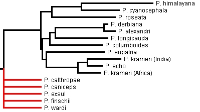 Phylogeny of the genus Psittacula based on existing molecular evidence. Species with red lines are currently unplaced in the phylogeny, but do belong to this genus.